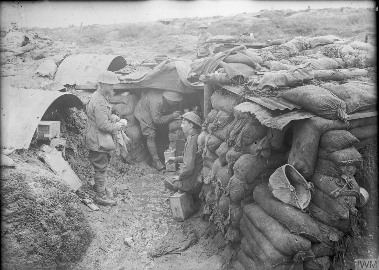 THE THIRD BATTLE OF YPRES (PASSCHENDAELE) 31 JULY - 10 NOVEMBER 1917. Entrance to a sandbagged dugout occupied by men of the Australian 105th Howitzer battery near Hill 60